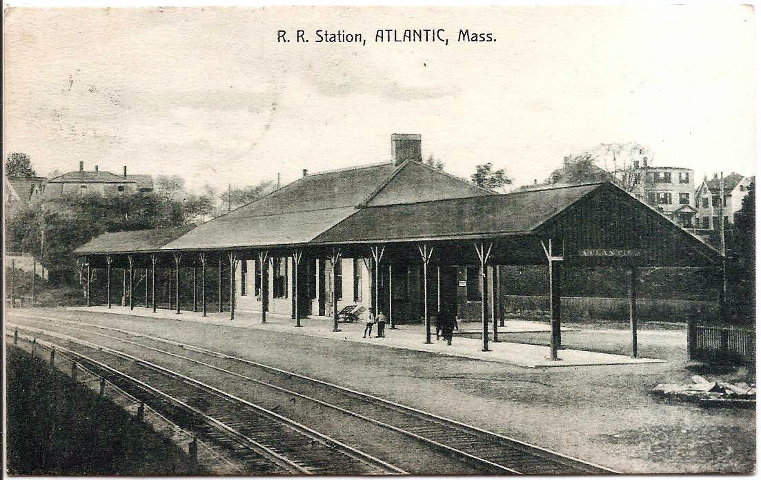 1910 divided back postcard of Atlantic station